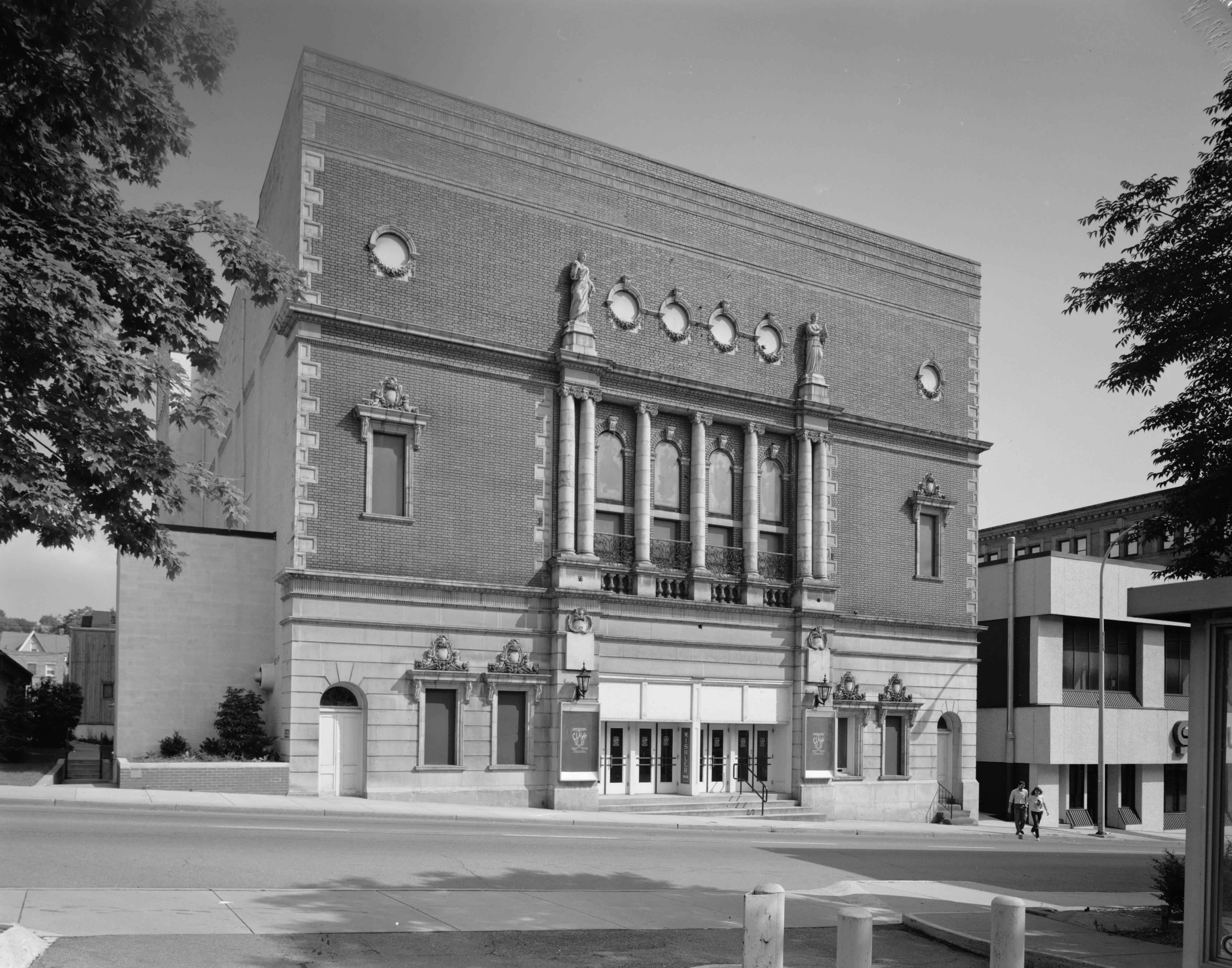 Front of the Mishler Theatre, located at 1208 Twelfth Avenue in Altoona, Pennsylvania, United States. Built in 1906, it is listed on the National Register of Historic Places.